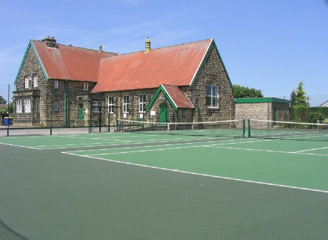 Robert Craven Memorial Hall at grid reference SE247433. Built in 1896, this is the village hall for the village of Bramhope. Built using a legacy of a local farmer, Robert Craven. Bramhope, West Yorkshire, England.